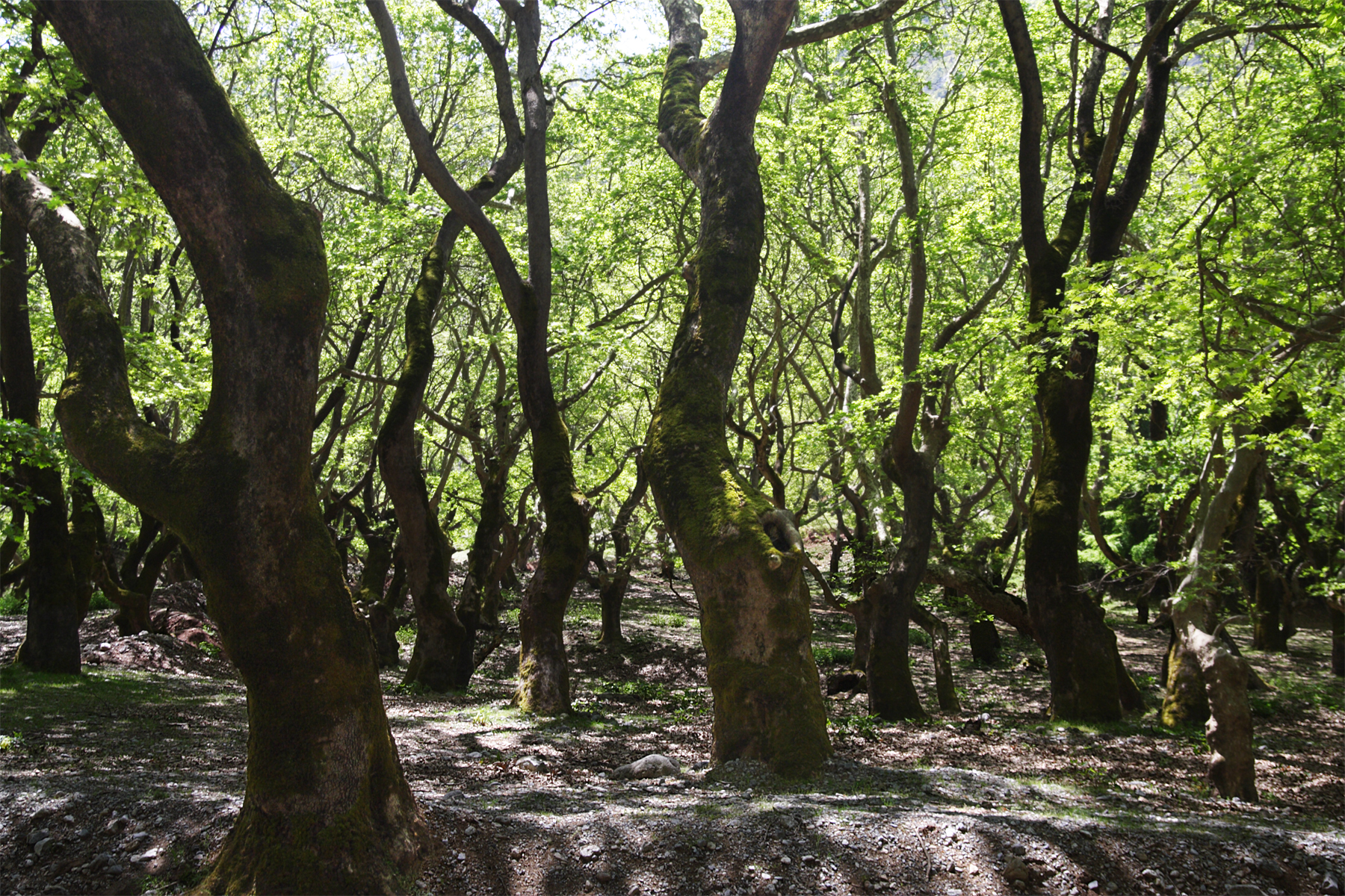 karst springs of river Aroanios (Achaea, Peloponnese). The springs emerge directly from limestone rock or from loose sediment, a ground of sandy gravel, well shaded by a forest of Platanus orientalis. The water comes from the carbonate Aroania Mountains (1500- 2341 m) and also from joints fed by the katavothren (Greek term for ponors/sinkholes) of the Feneos depression. On a surface of only 30x800 m 41 tiny outlets result in a remarkable large brook. Unfortunately this rare kind of a geotope is not suitably protected. The site is dominated by touristic-commercial interests.